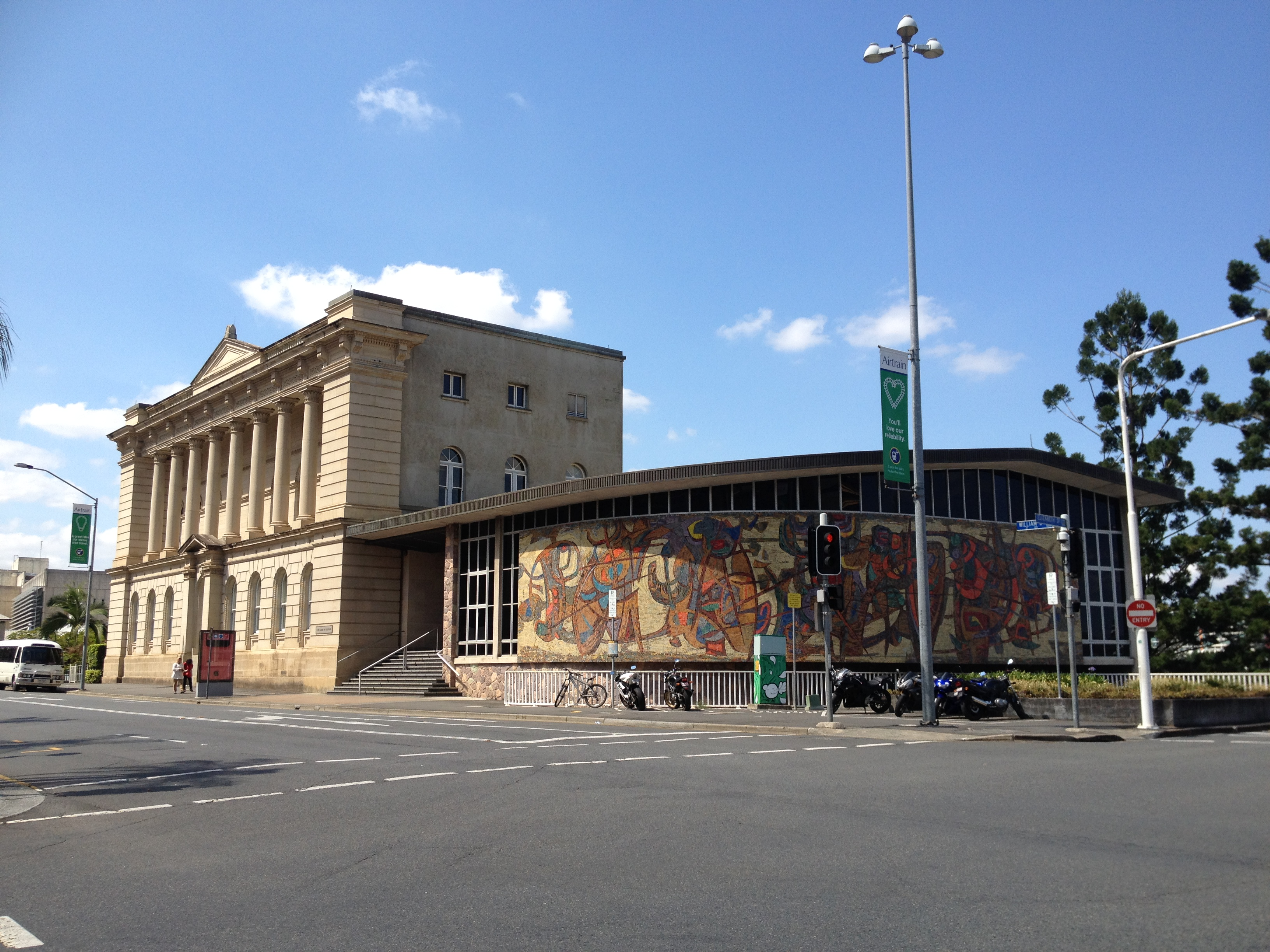 Old State Library of Queensland Building seen across intersection of William Street and Elizabeth Street, Brisbane